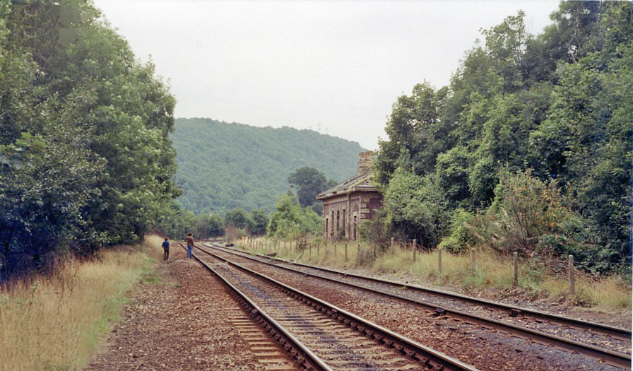 Coalbrookdale station (remains) View NE, towards Wellington, also Shifnal via Madeley; ex-GWR Wellington - Buildwas - Much Wenlock - Craven Arms line, also Shifnal via Madeley (Salop). The station closed on 23/7/62 when the Wellington - Much Wenlock service caesed, but remained open for goods until 6/7/64. The line here is still open in 1983 as it is on the route of merry-go-round coal traffic to the enormous Ironbridge B Power Station across the Severn at Buildwas, and this comes via the Madeley line.